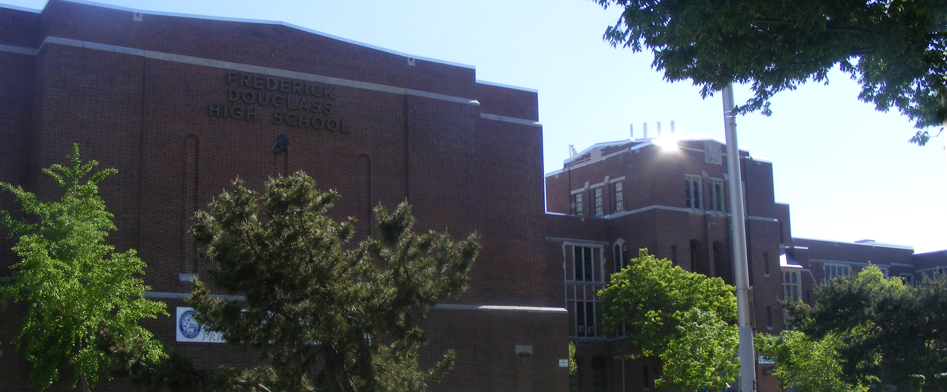 The current Frederick Douglass High School, located at 2301 Gwynns Falls Pkwy in Baltimore, Maryland. The building was originally used as Western High School, designed to match the Eastern High School.